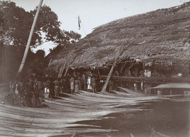 Subject: flags, marriage, proas, stilt houses